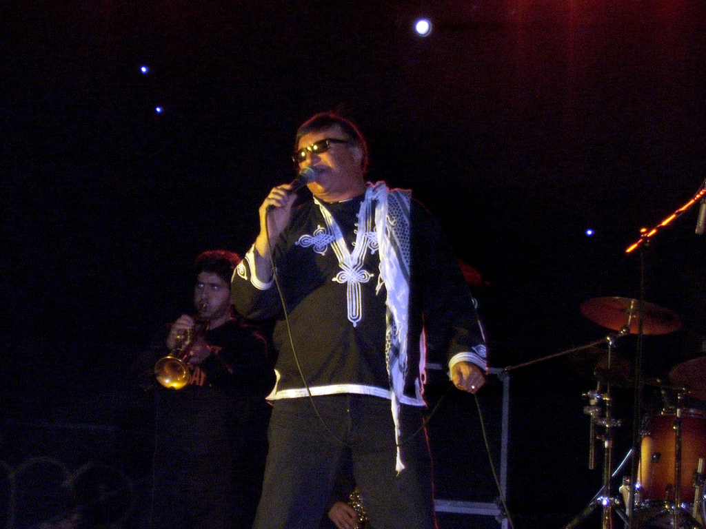 José Cid in concert.